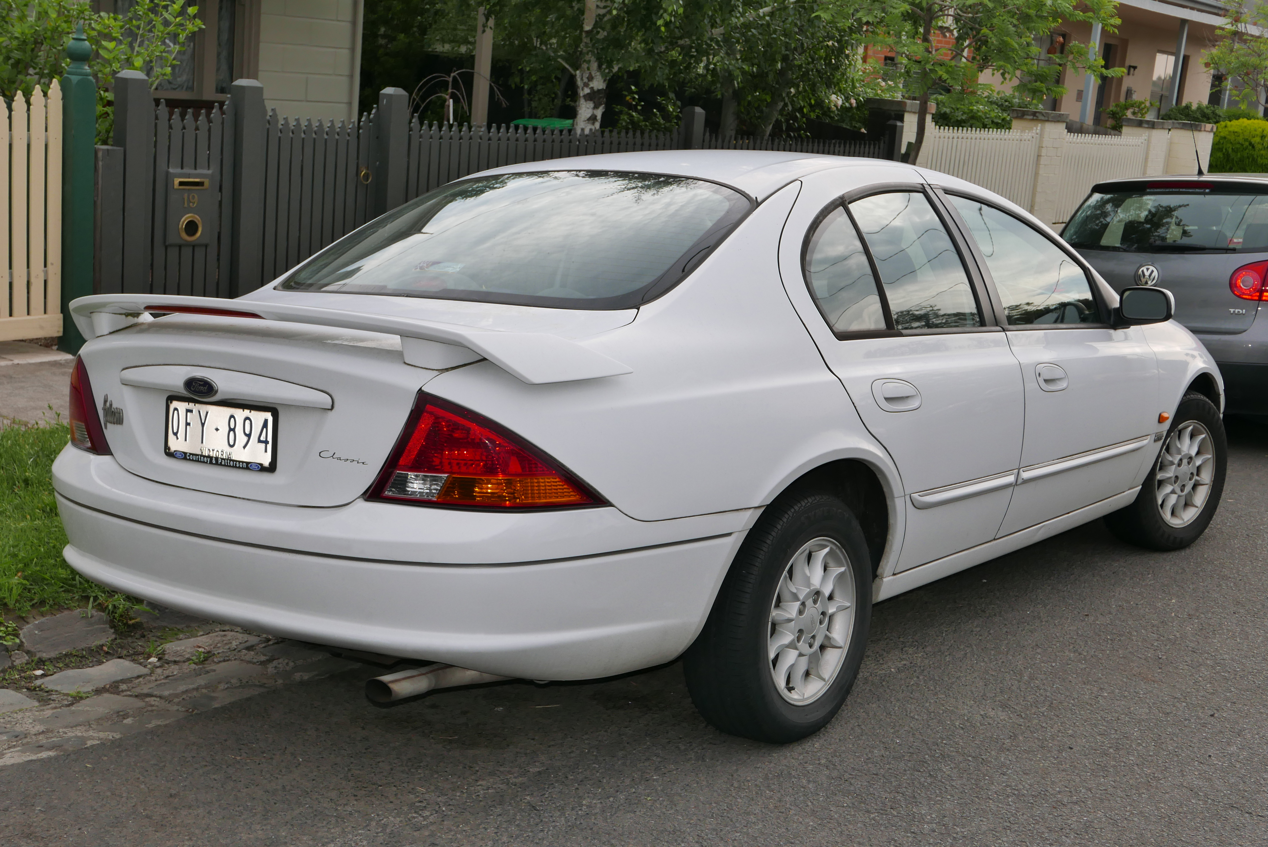 2000 Ford Falcon (AU) Classic sedan. Photographed in Ascot Vale, Victoria, Australia. Vehicle registration enquiry resultsJurisdictionVictoriaRegistrationQFY894Chassis code6FPAAAJGSWYA36251Engine codeJGSWYA36251Compliance date2000-02Year of manufacture2000